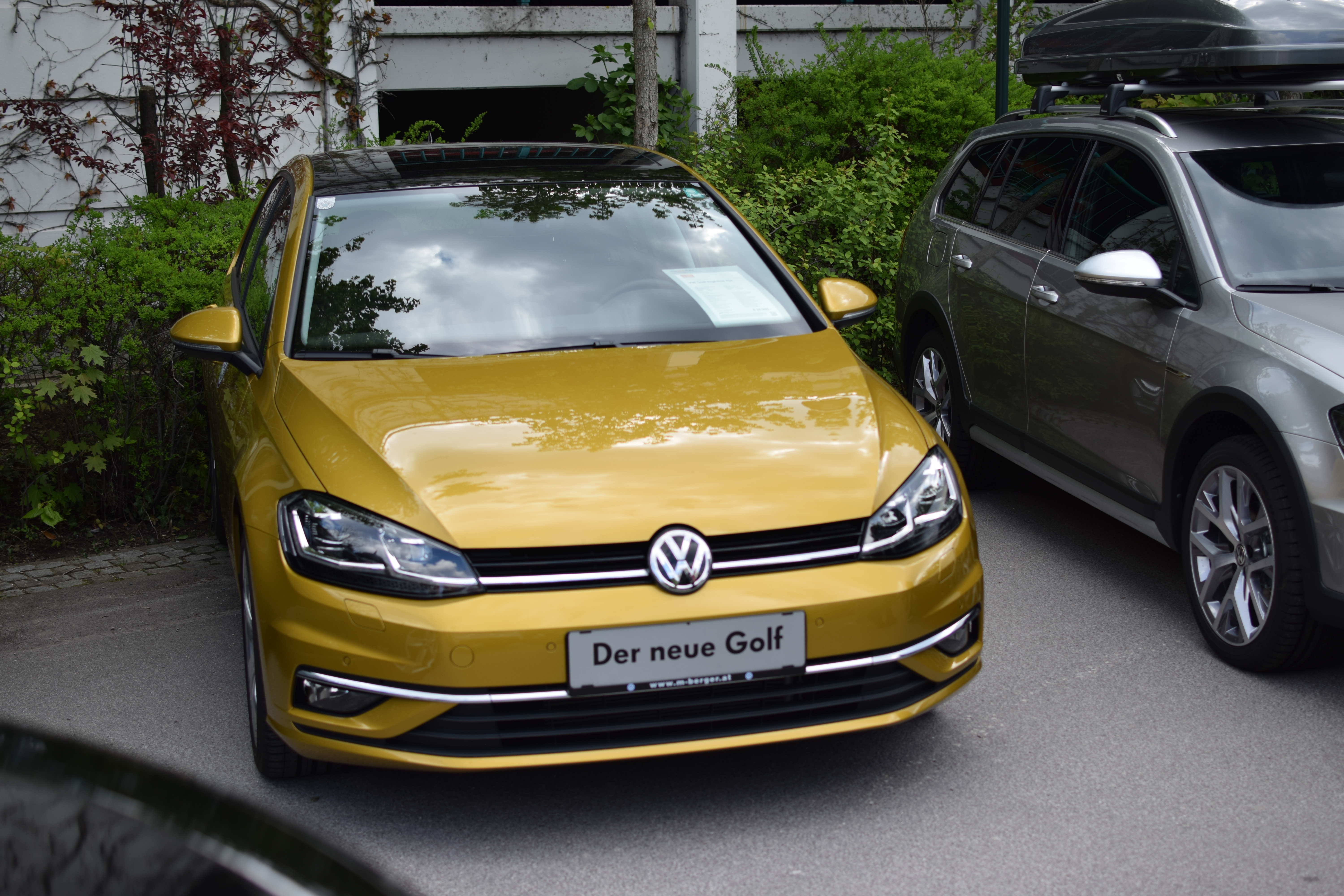 2017 Volkswagen Golf 5 door Mk7 (5G) facelift seen from the front in gold